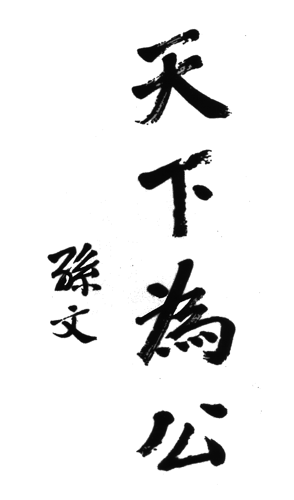 A handwritten inscription by Dr. Sun Yat-sen, 1924, the content is "Tian Xia Wei Gong (All under heaven is for the public) - Sun Yat-sen" he is the father of China and died at 1925, therefore the photo must be in public domain.